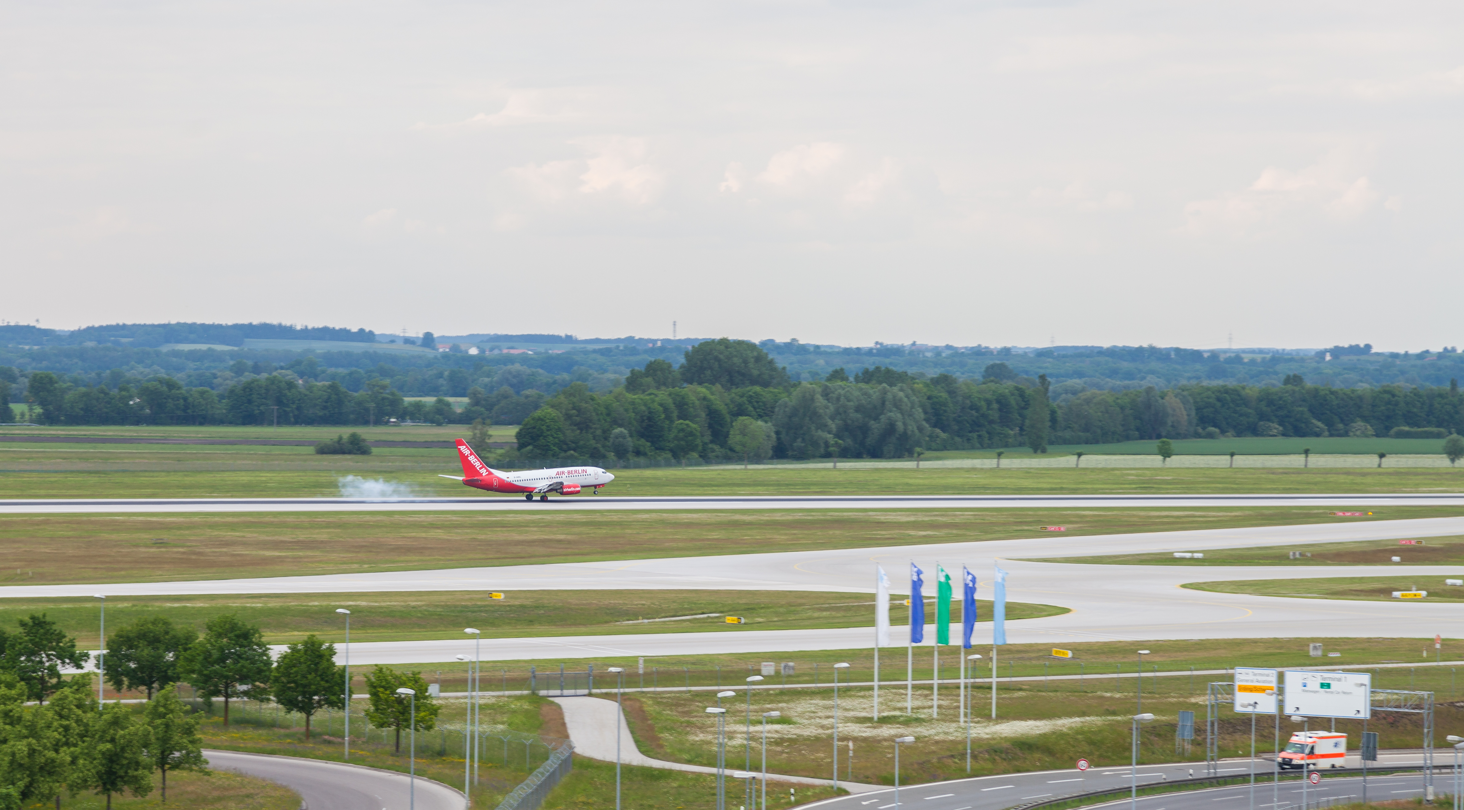 Air Berlin airplane landing in the Munich Airport, Germany